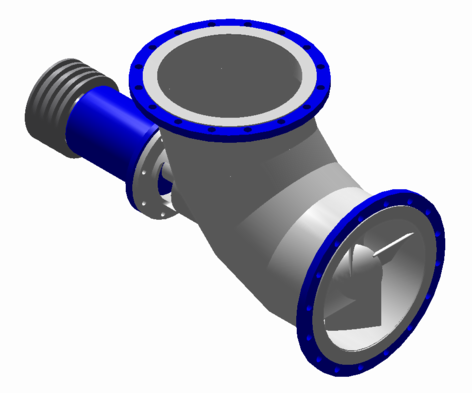 3D viev of an axial flow pump for industrial use Author : R. Castelnuovo (myself) 2005 09 28